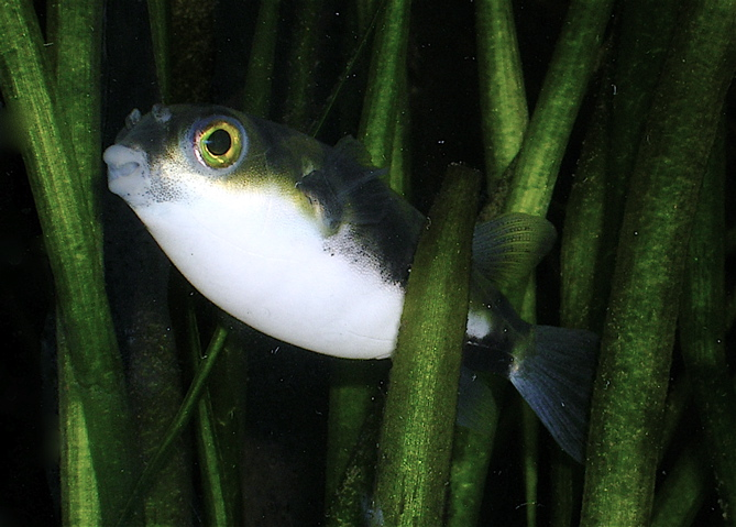 A picture of a subadult Colomesus asellus pufferfish in my freshwater aquarium. The specimen is about 6 cm long. Known as the South American puffer.